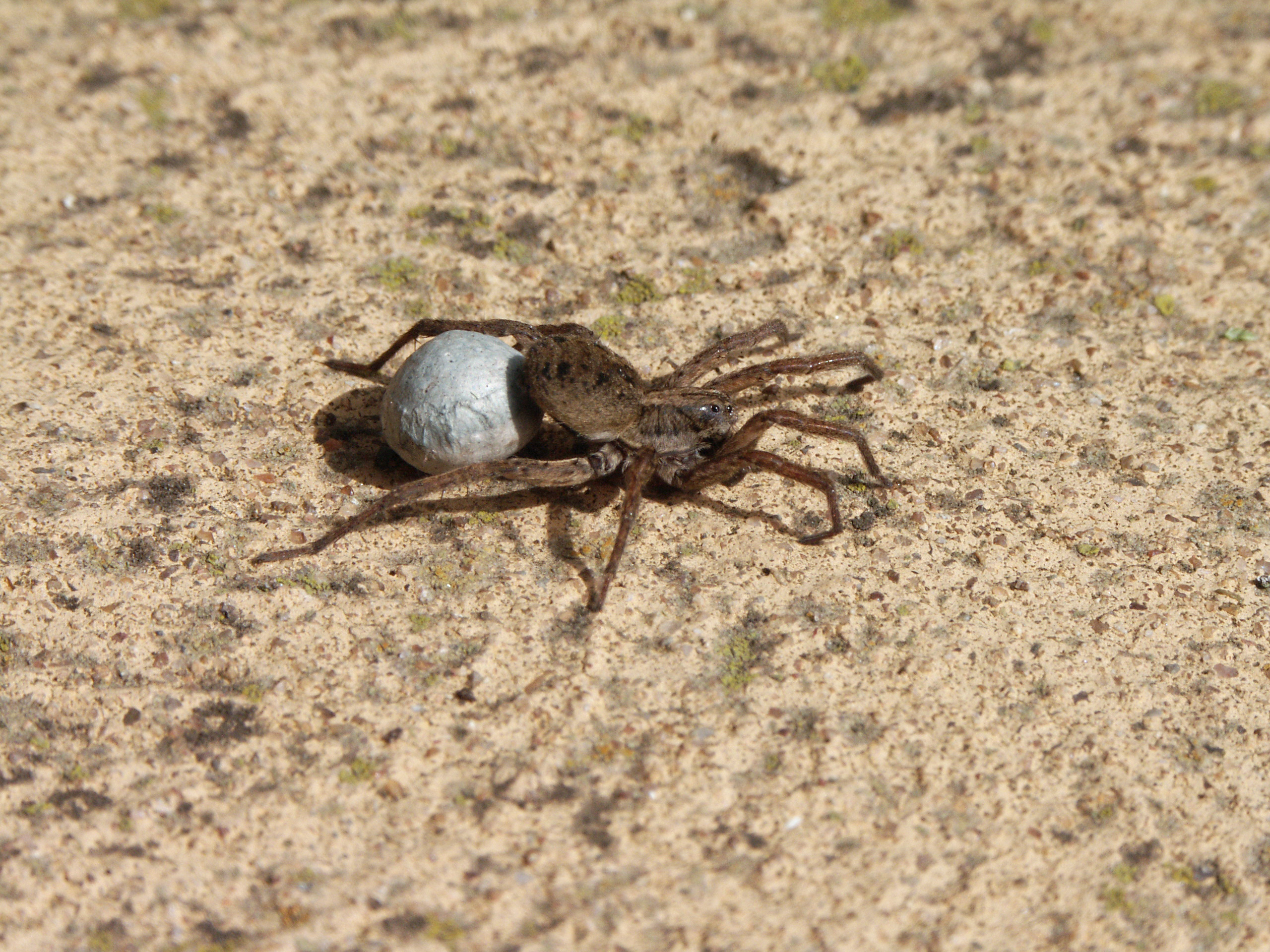 Wolf Spider carrying egg sac across our back path in Chelsea, Victoria, Australia